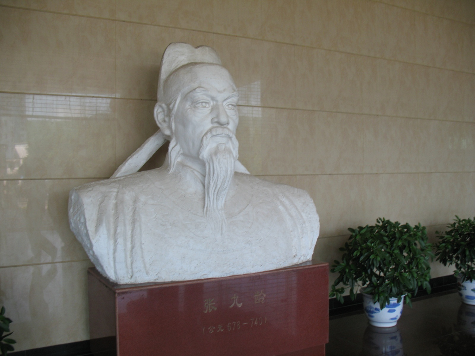 Zhang Jiuling(In AD 678 to 740) Zhang Jiuling was a politician and poetry in Tang Dynasty(唐) of China.